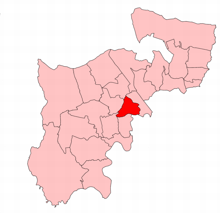 A map of Willesden West constituency within Middlesex, as it existed from 1945 to 1950.